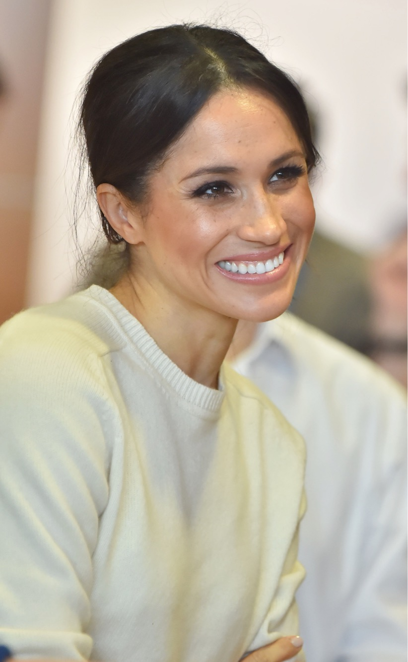 During their first visit to Northern Ireland on 23 March 2018, Prince Harry and Ms. Markle visited Catalyst Inc. An independent, non-profit organisation which works to build a community of innovators in Northern Ireland, providing the home, support and networks to nurture innovators and entrepreneurs to aim higher and succeed faster. The visit saw talented individuals from across Northern Ireland showcase their products and inventions to Prince Harry and Ms. Markle, talking them through the entrepreneurial journey - from the original idea through to the final product.